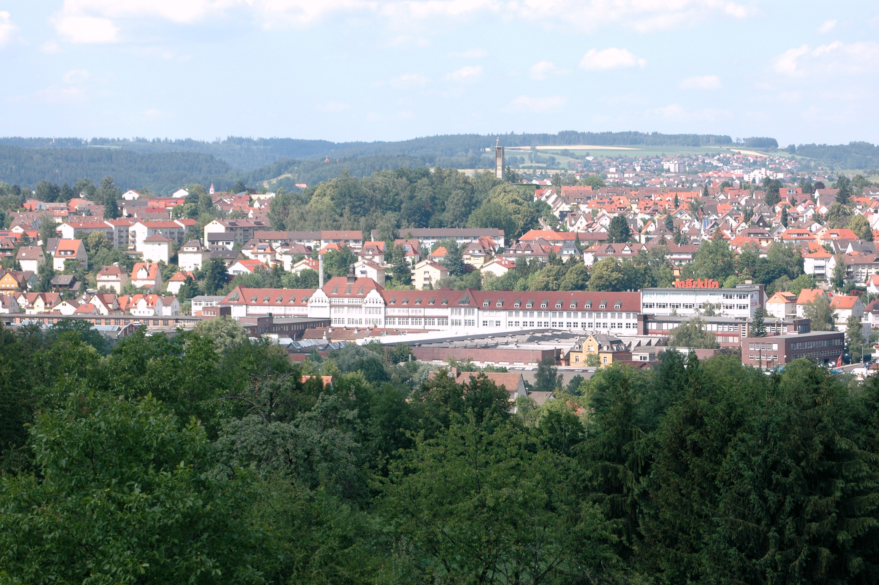 Märklin factory